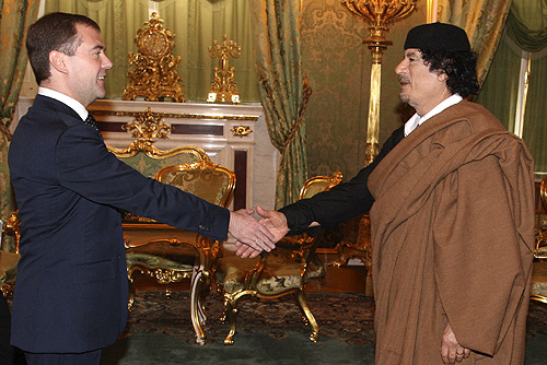 THE KREMLIN, MOSCOW. With leader of the Libyan Revolution Muammar Gaddafi.